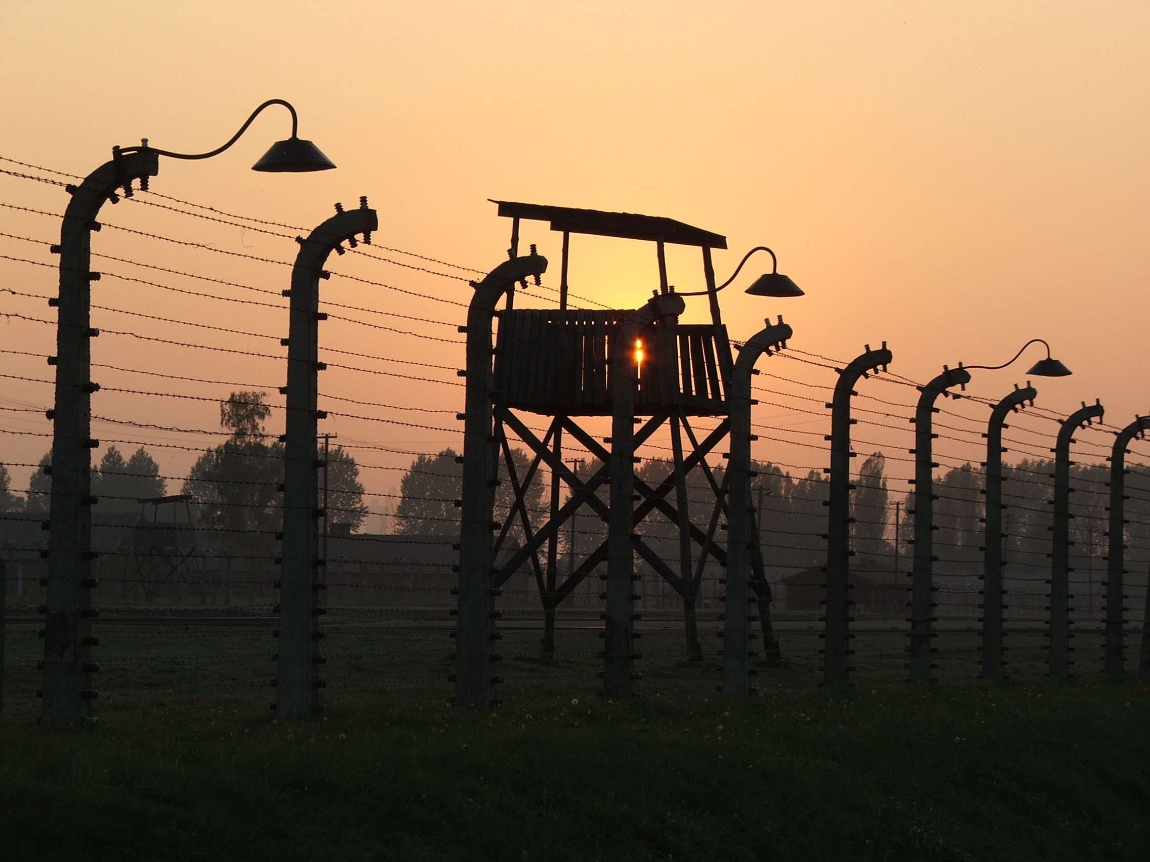 Concentration camp Auschwitz II Birkenau